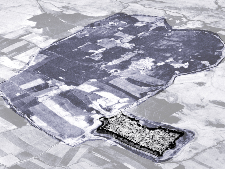 عکس هوایی شهر بلقیس در سال 1937 میلادی برگرفته توسط اریخ اشمیت